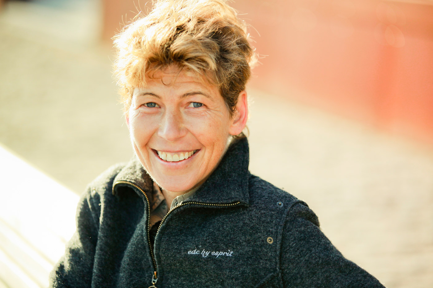 The German journalist and Africa specialist Bettina Rühl.